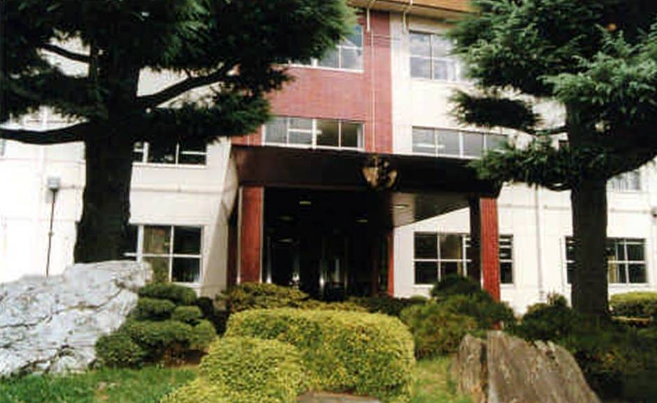 Quautermaster School,JGSDF